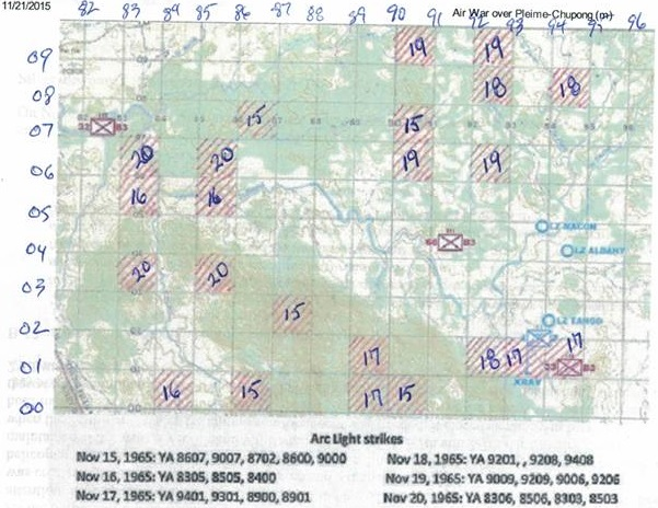 B-52 strike on NVA troop positions from Nov 15 to 19, 1965 in Chu Pong Ia Drang complex